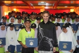 Ambassador Jones leads Click! Camp youth in a community project.